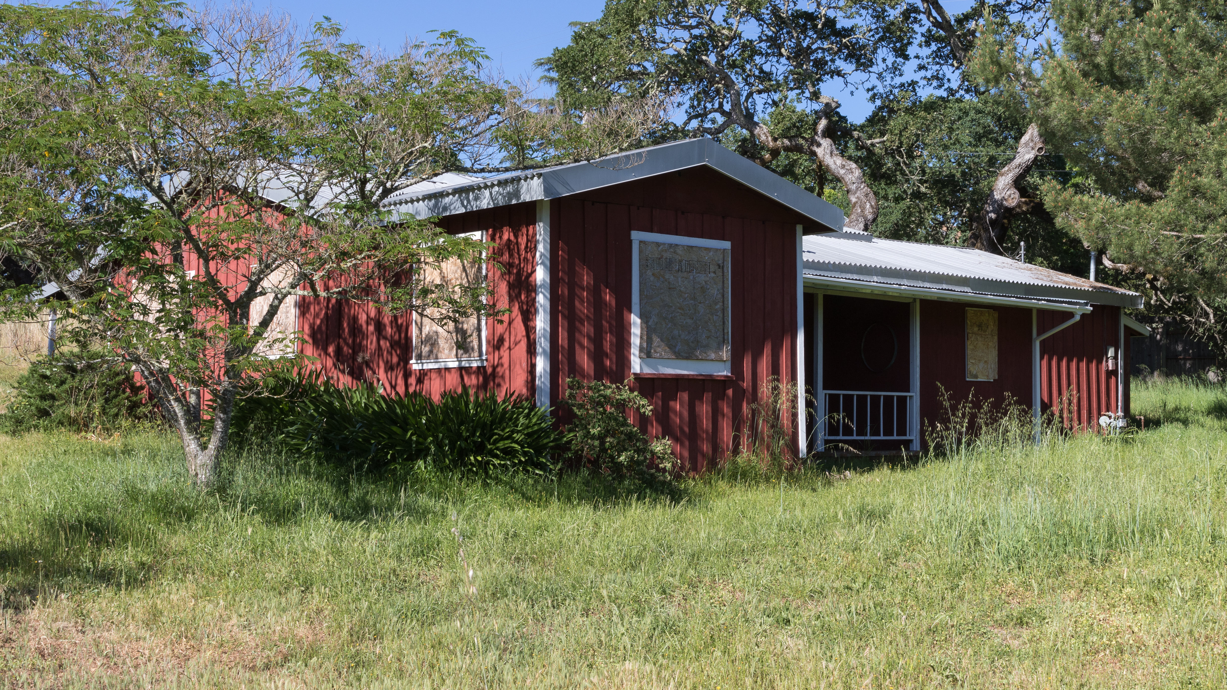 Former building of Camp Windsor, a German P.O.W. camp in California